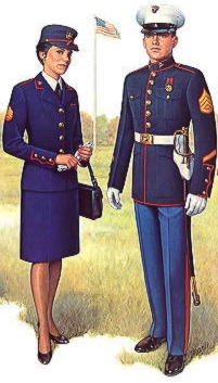 From left to right: Blue Dress "B" (Female), Blue Dress "A" (Man) The original description page is/was here. All following user names refer to en.wikipedia.